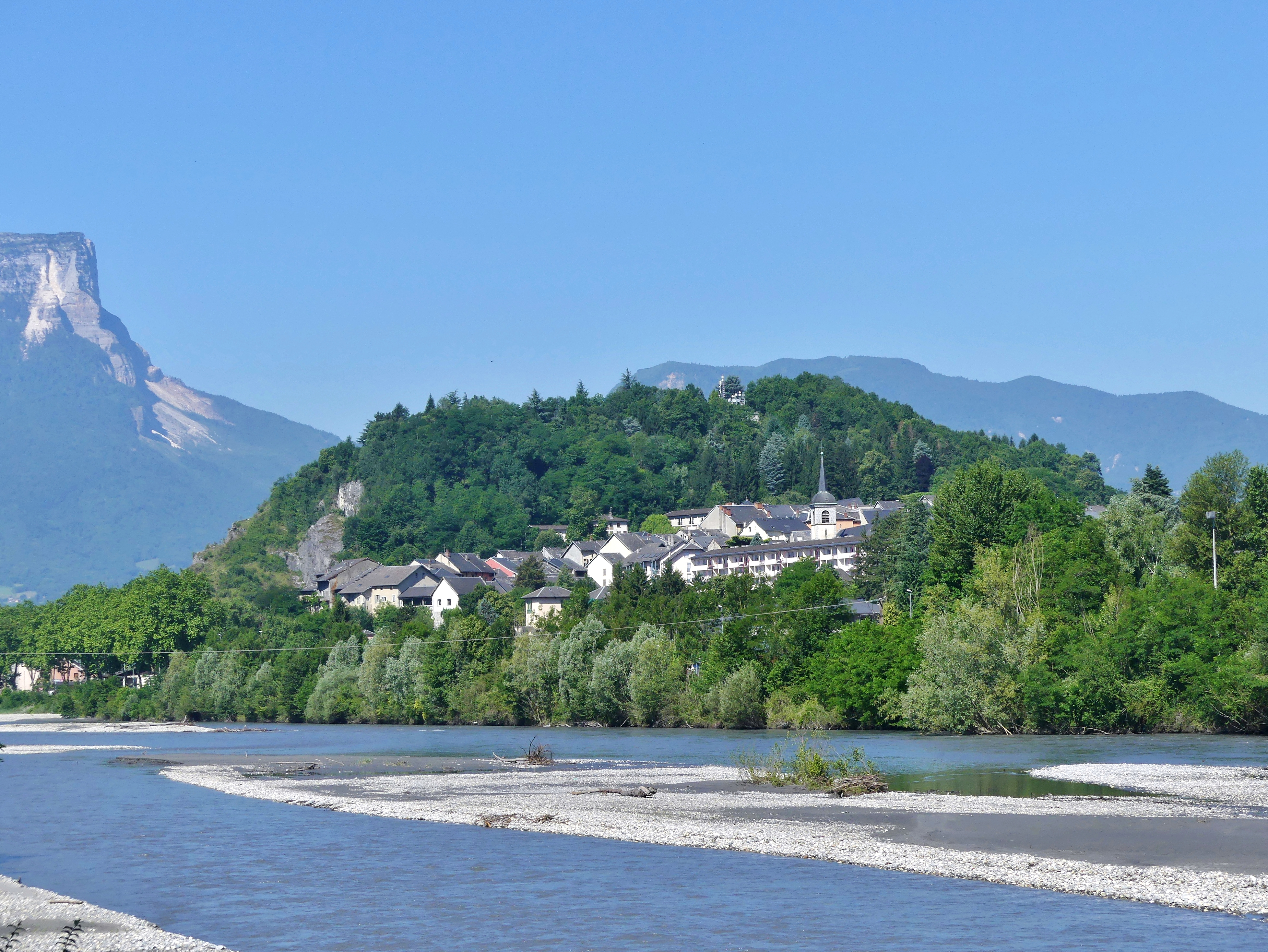 Sight of the old town of Montmélian at the foot of the 'Montmélian's rock' and along the Isère river, in Savoie, France. The Granier mountain is visible on the left.